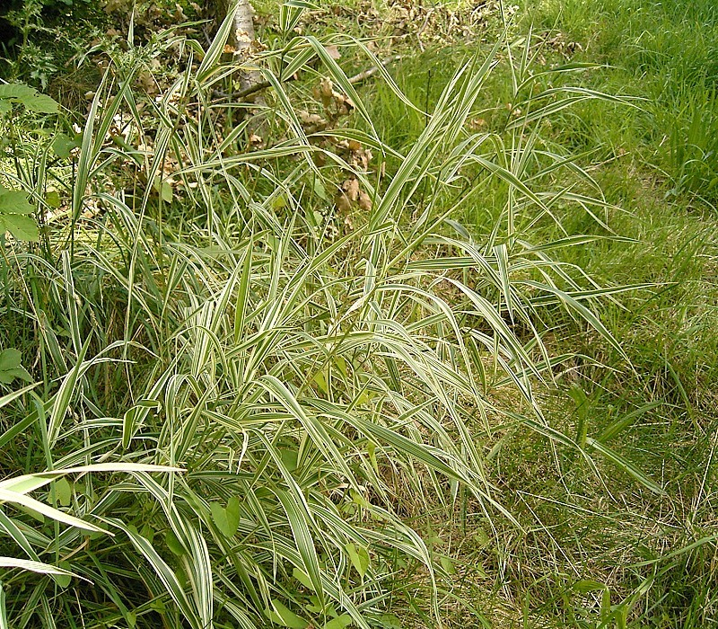 Phalaris arundinacea